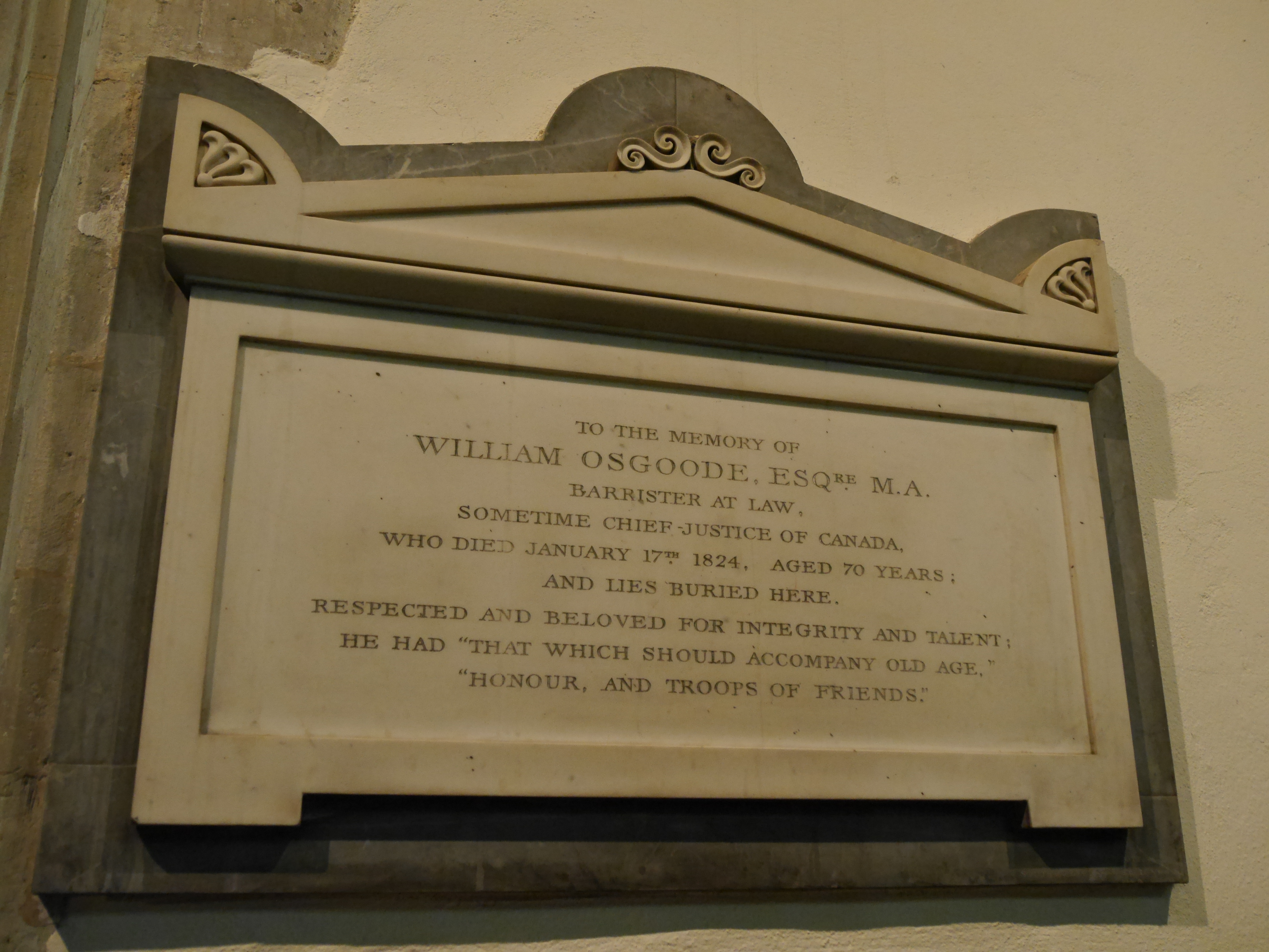 St Mary's, Harrow on the Hill, 2015